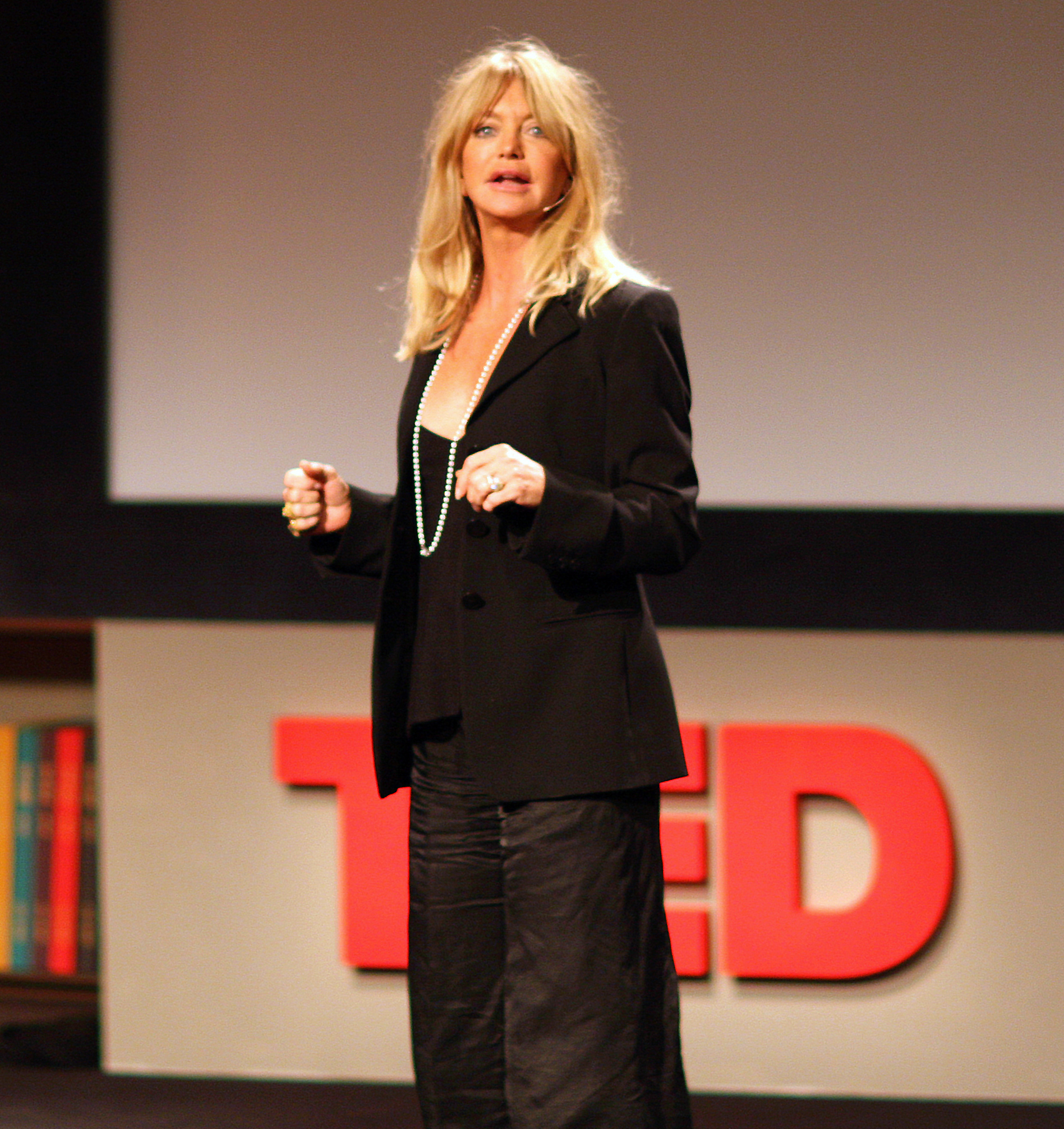 Goldie Hawn at TED 2008.